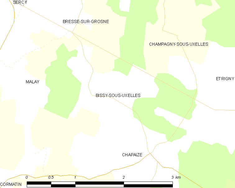 Map of French municipality